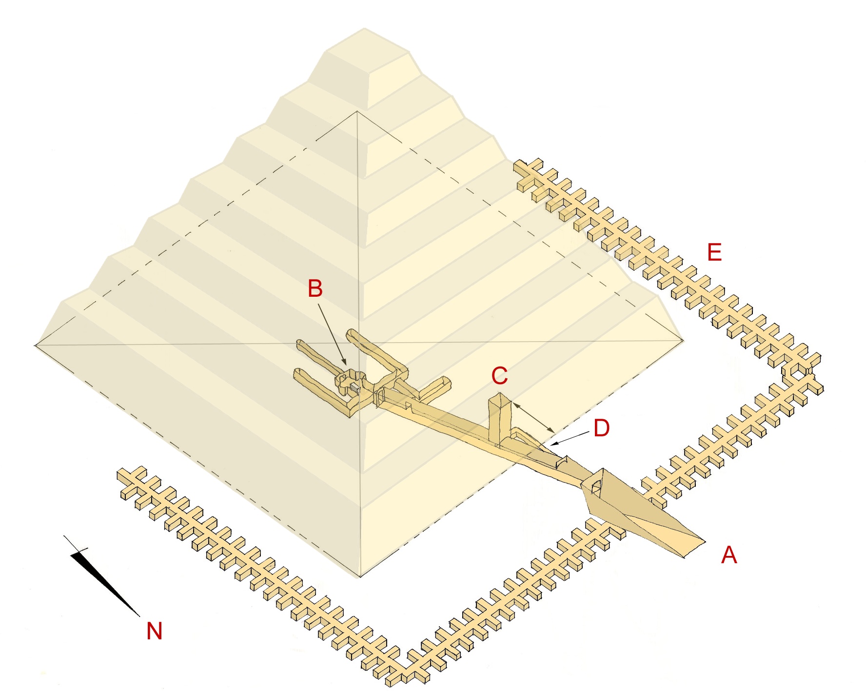 Substruktur der Sechemchet-Pyramide Substructure of the pyramid of Sekhemkhet